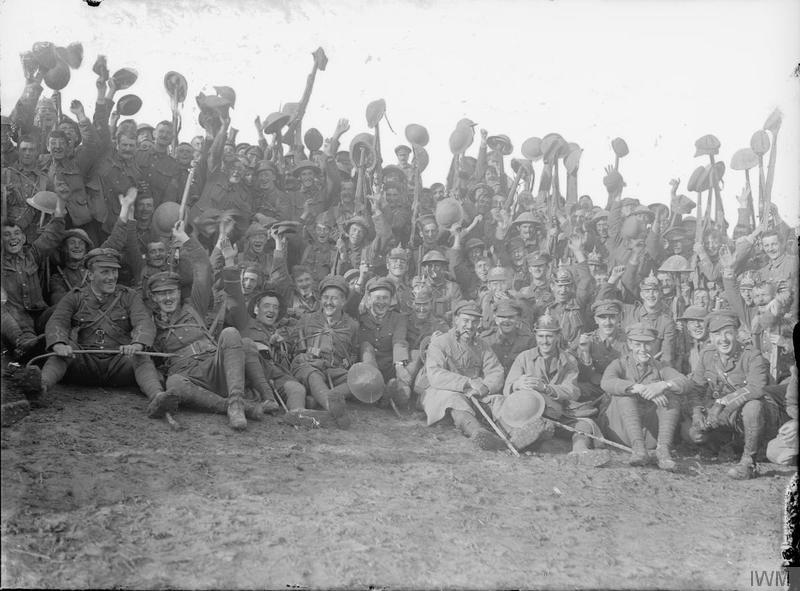 The Battle of the Somme, July-november 1916 Troops of the 1/5th Battalion, Northumberland Fusiliers cheering after the attack on Le Sars. Near Albert, 7 October 1916.